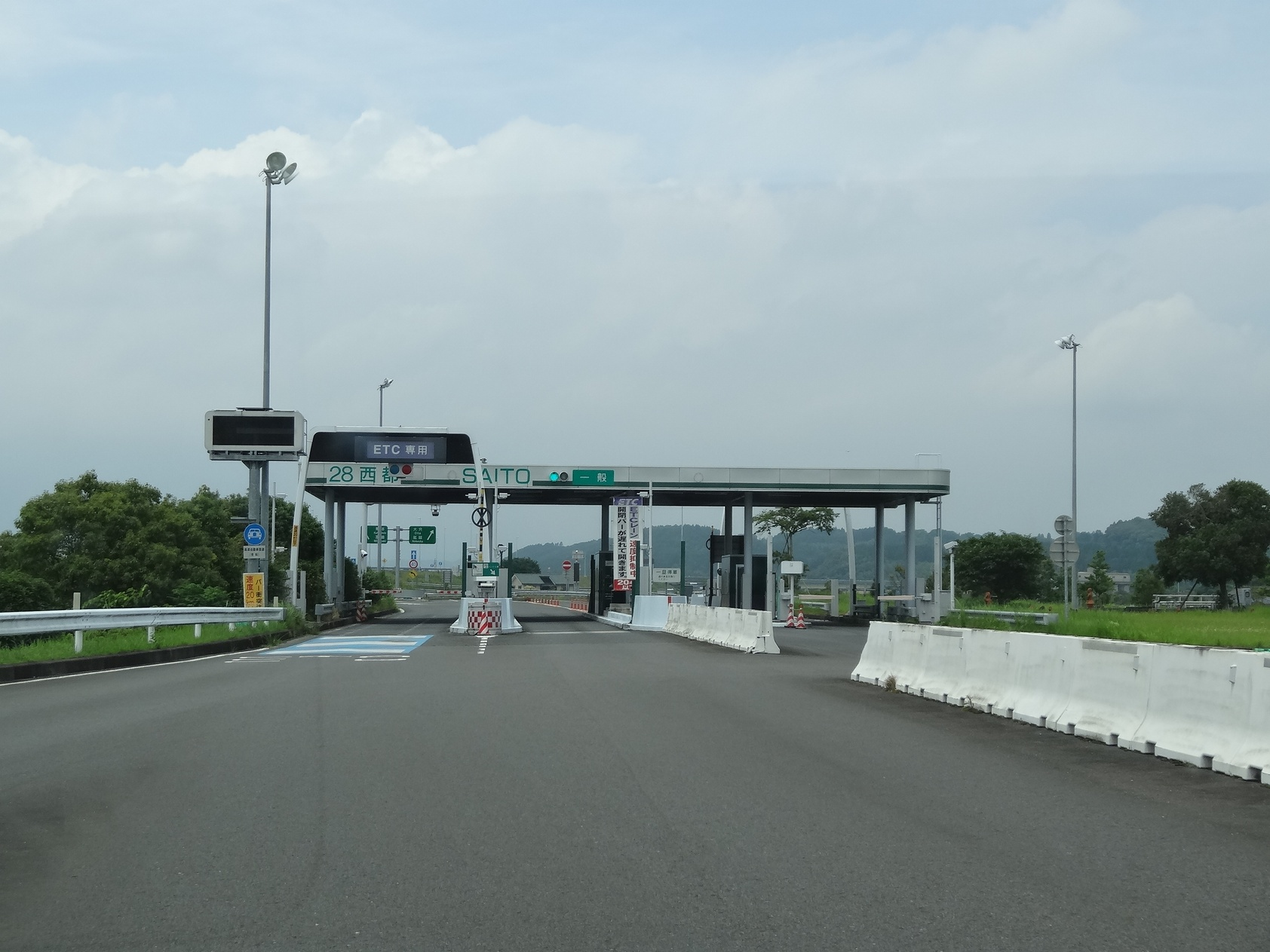 The Toll Plaza at Saito Interchange of Higashi-Kyushu Expressway in Saito City and Shintomi Town, Miyazaki Prefecture, Japan.